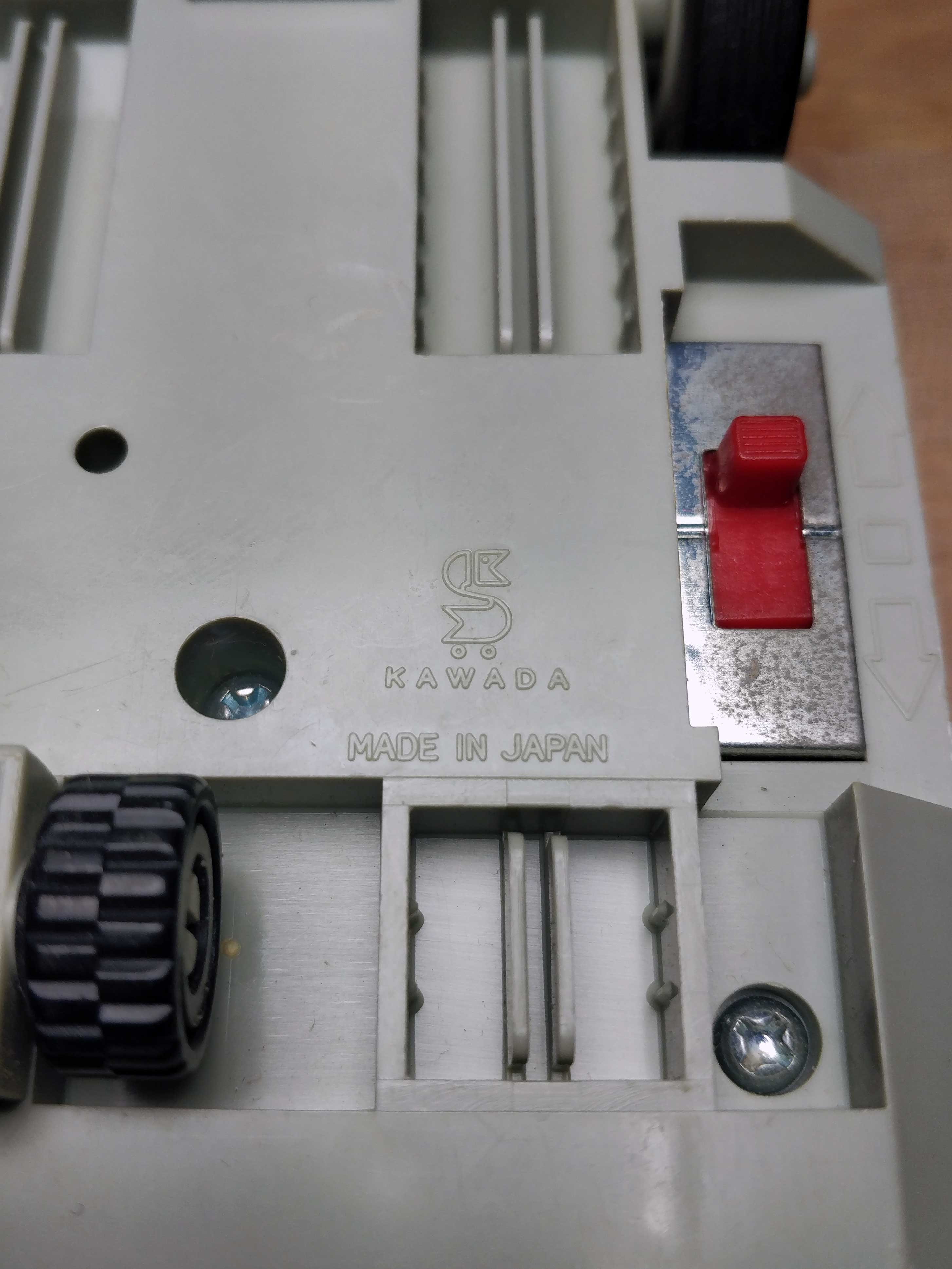 Kawada Co. Logo on bottom of Dia Block (Loc Bloc) motorized base.